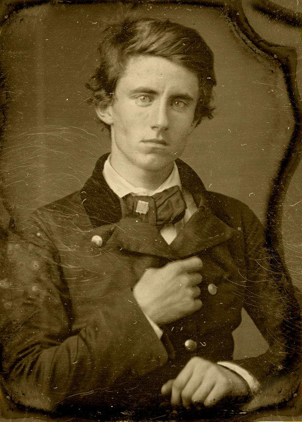 Daguerreotype image of Benjamin Piatt Runkle circa 1857, then student at Miami University in Oxford, Ohio, USA and a founder of the Sigma Chi Fraternity in June 1855